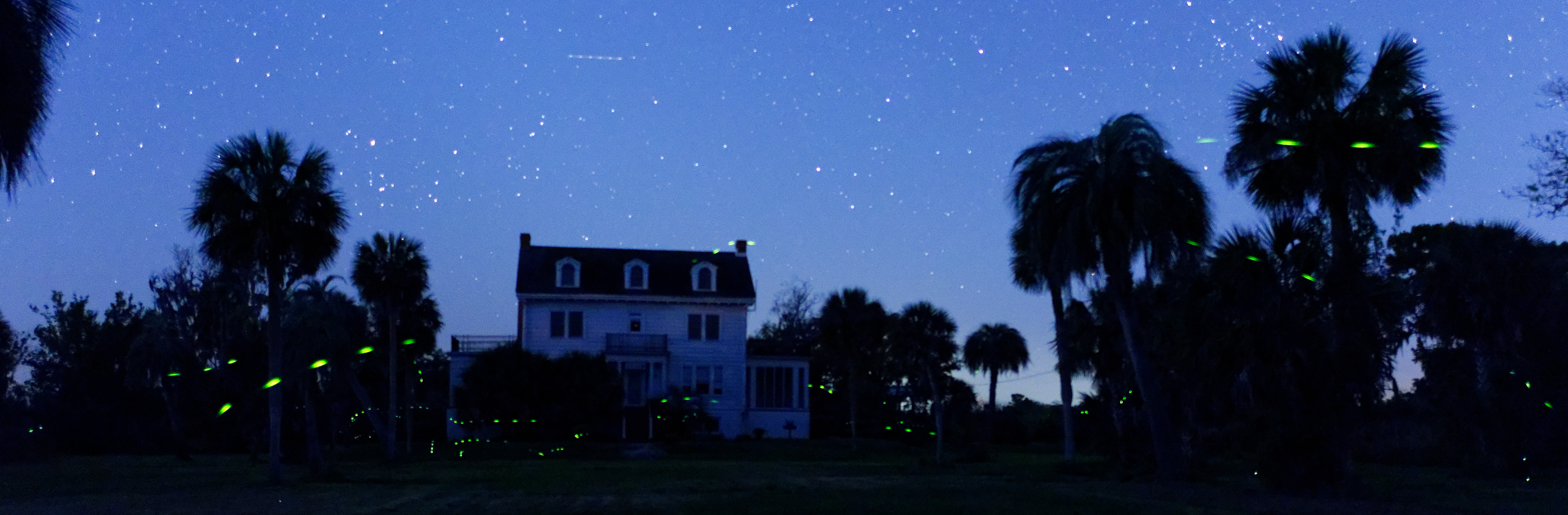 Fireflies in south Georgia, U.S., at the Butler Island Plantation. This is an 8-second exposure, with some fireflies flashing five or six times in that period. (the horizontal one above the building is an airplane.)